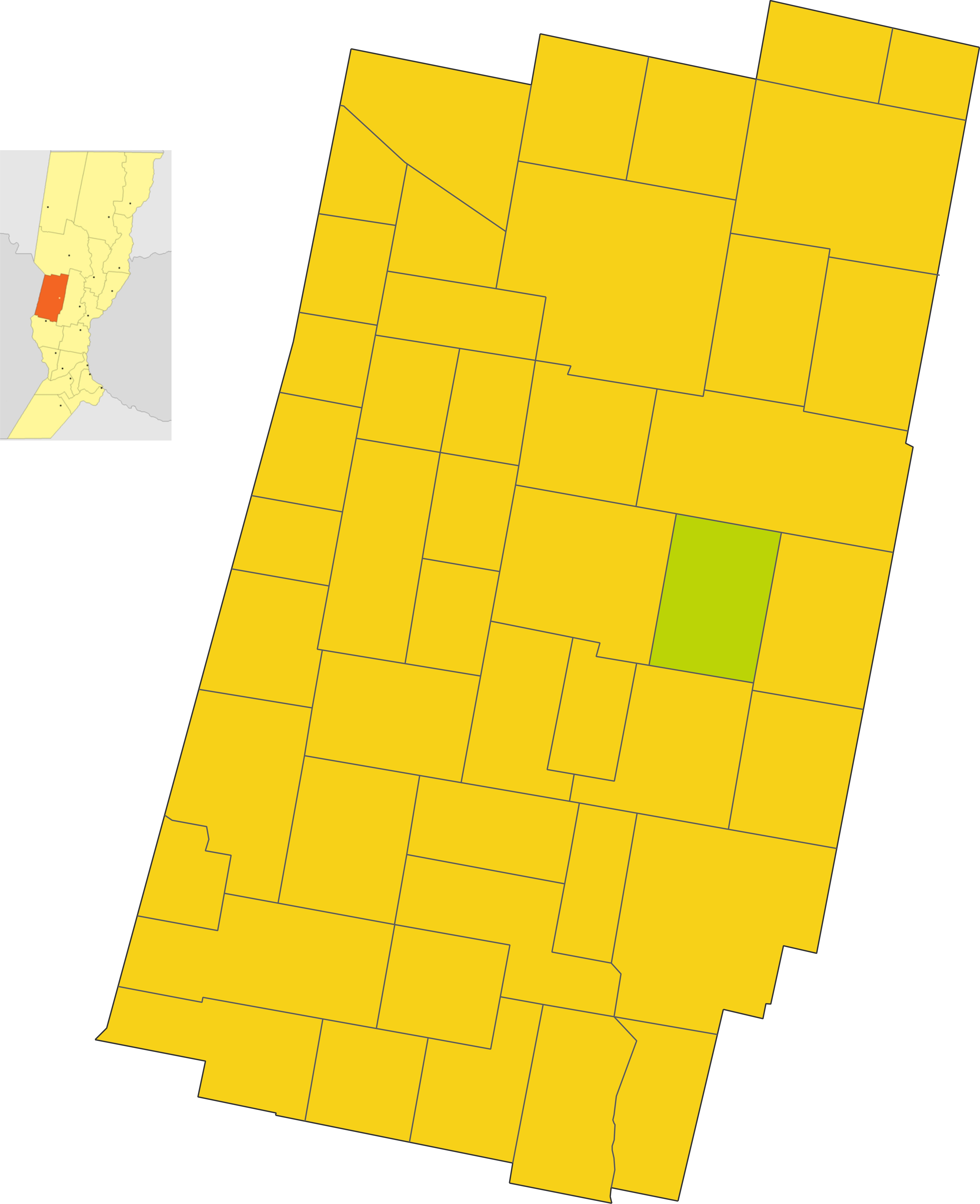 Map of the municipio de Rafaela in Rafaela department, Santa Fe province, Argentina